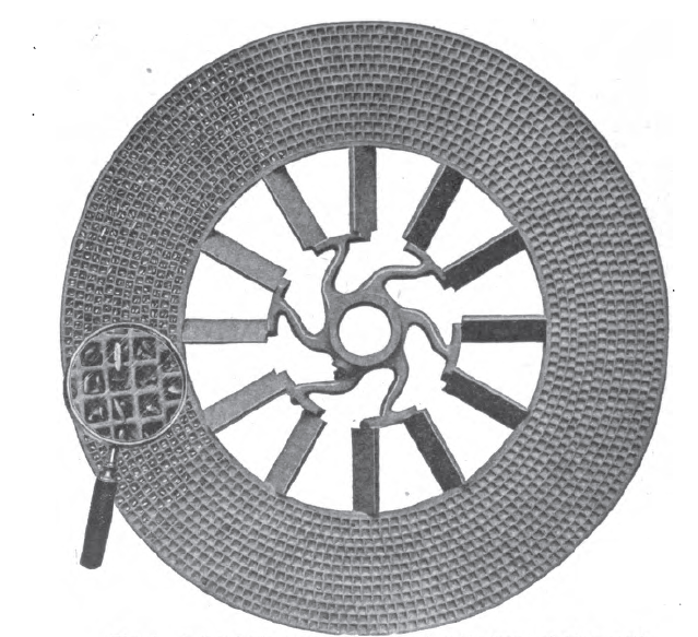 Side view of a disc in a disc grain separator (trieur)